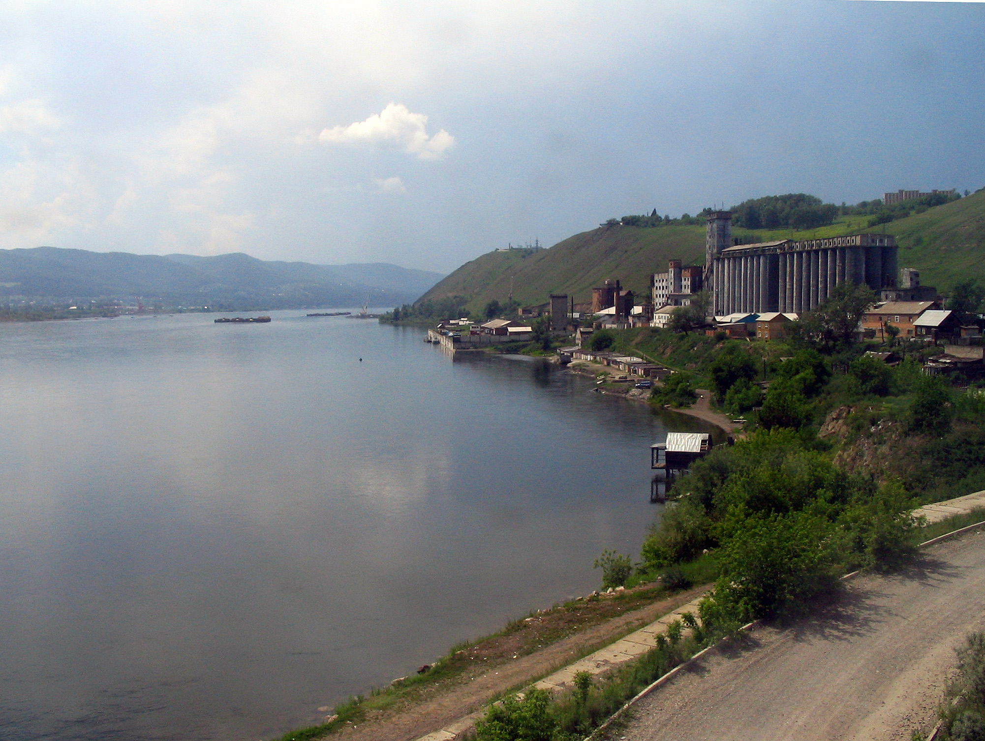 The bank of the Yenisei River near Krasnoyarsk. Taken by me 7/06 and released into public domain